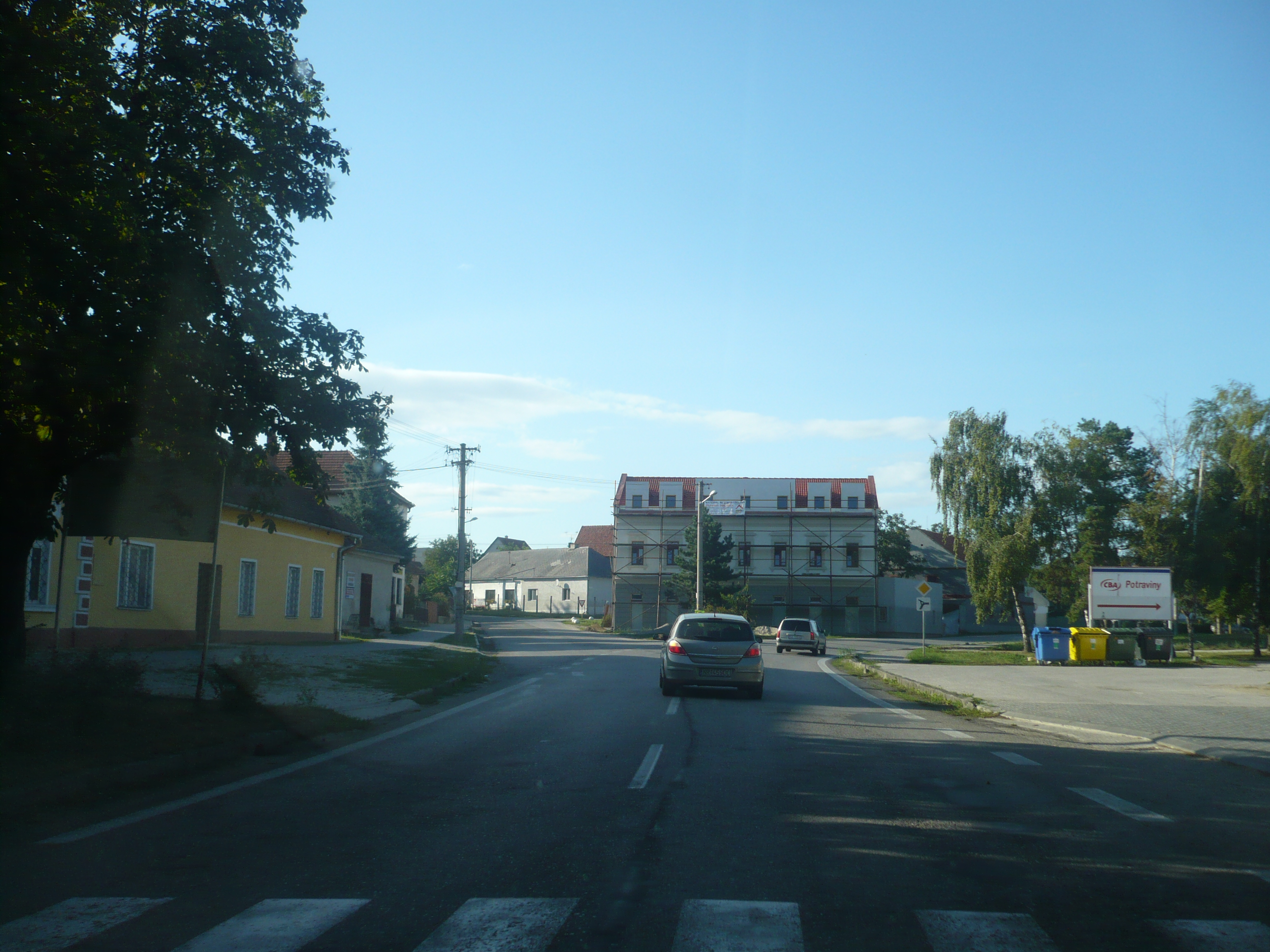 Town center